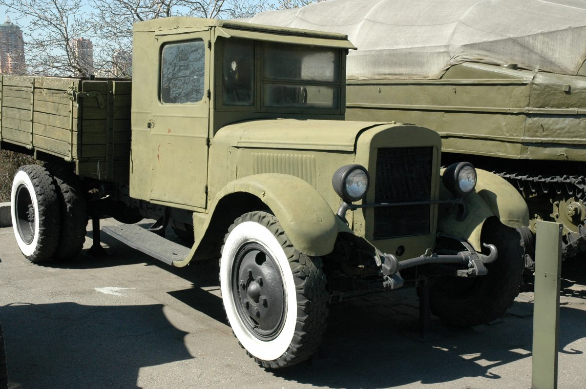 Soviet ZiS-5 truck in the Museum of Great Patriotic War